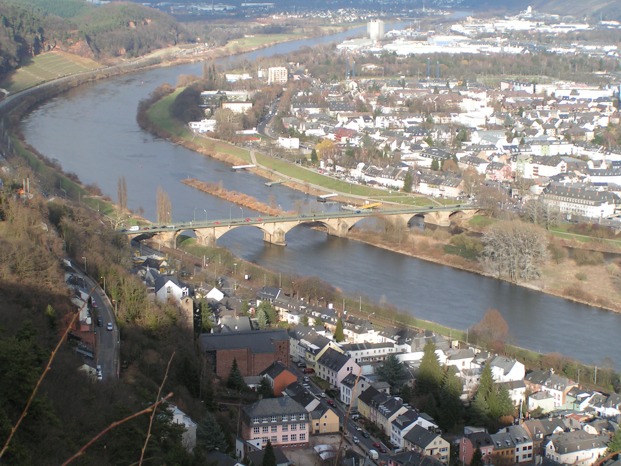 Kaiser-Wilhelm-Brücke in Trier, Germany